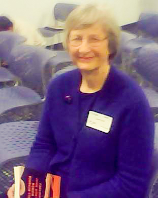 Laurel Thatcher Ulrich, American feminist historian and professor at Harvard University. After lecture about her book, Well-Behaved Women Seldom Make History at Google Boston.